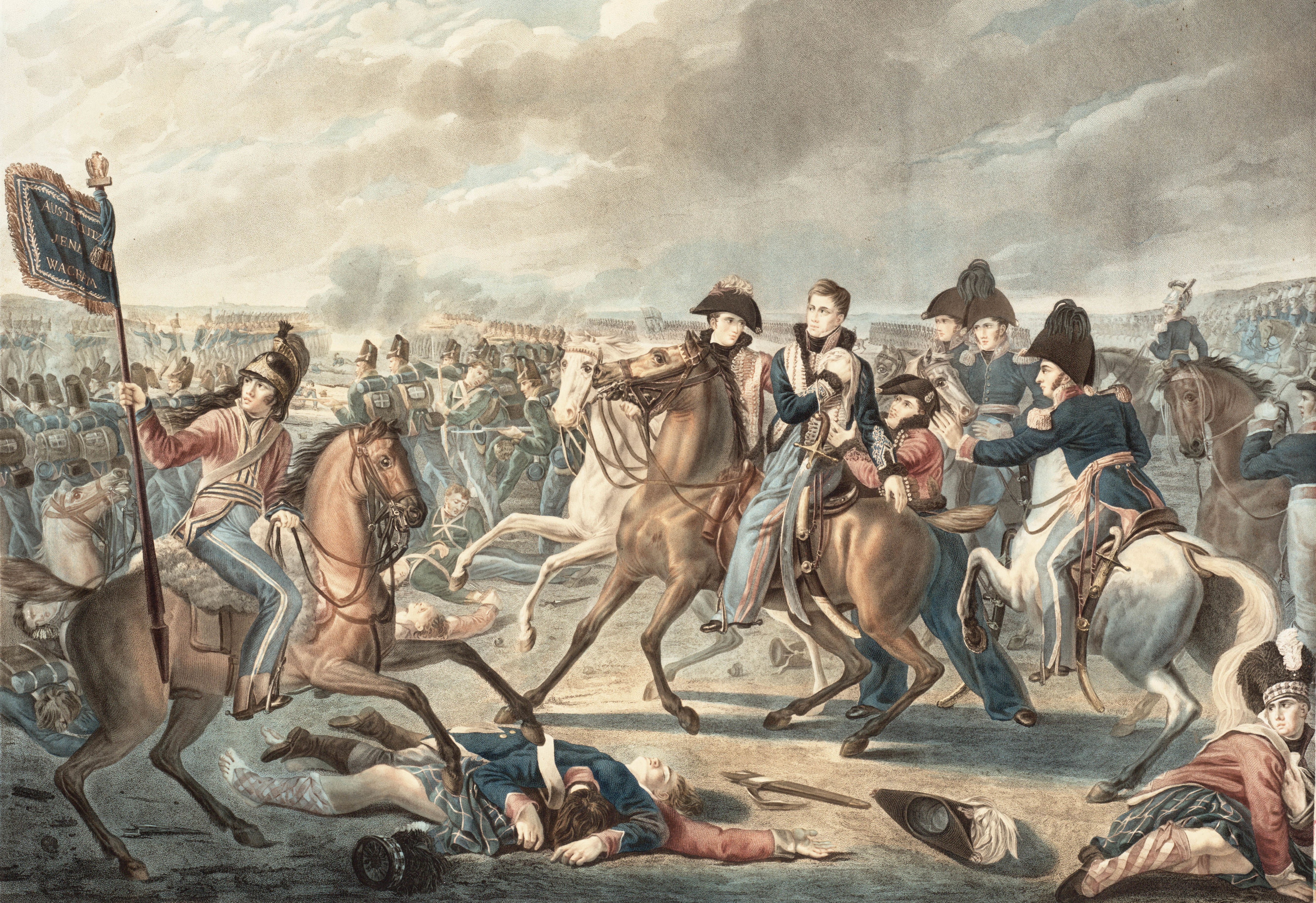 The injury to the Prince of Orange at Waterloo (1815)